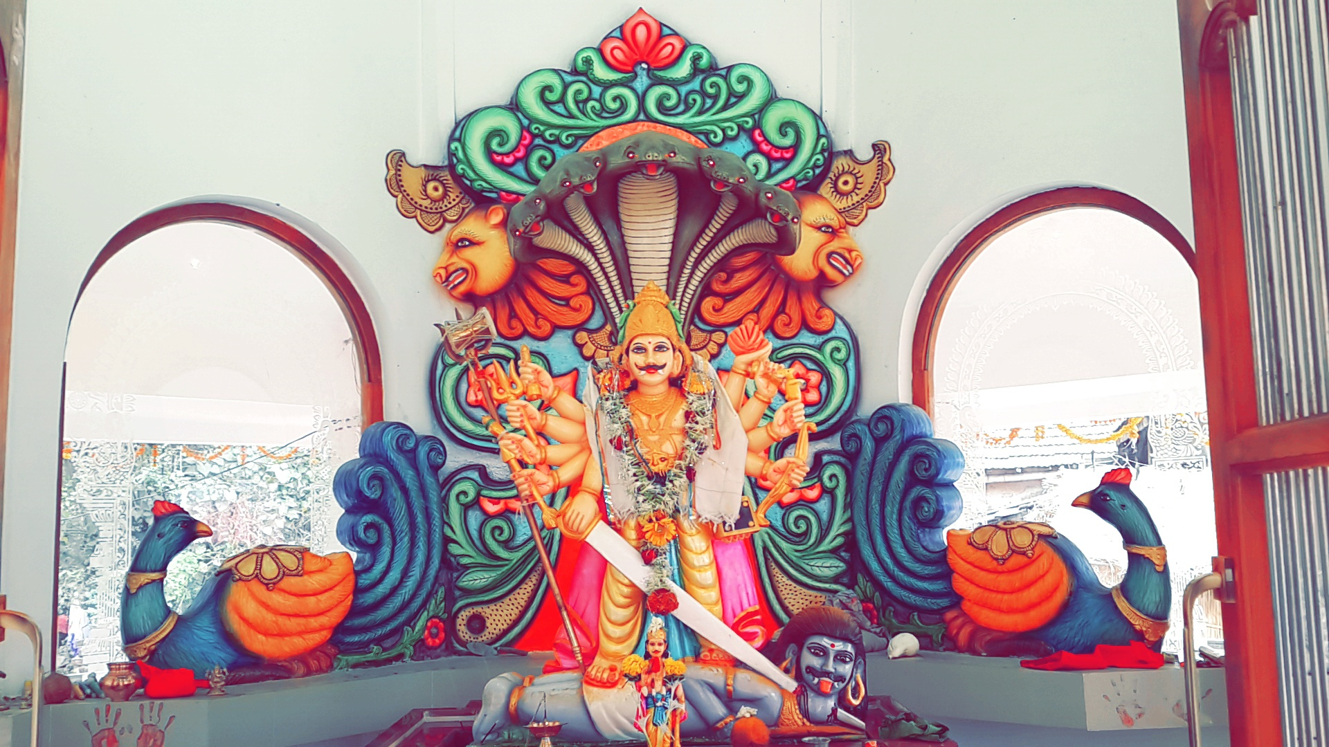 The first temple of lord Veerabhadra in entire Raigad district.One of the most jagrut devasthan.